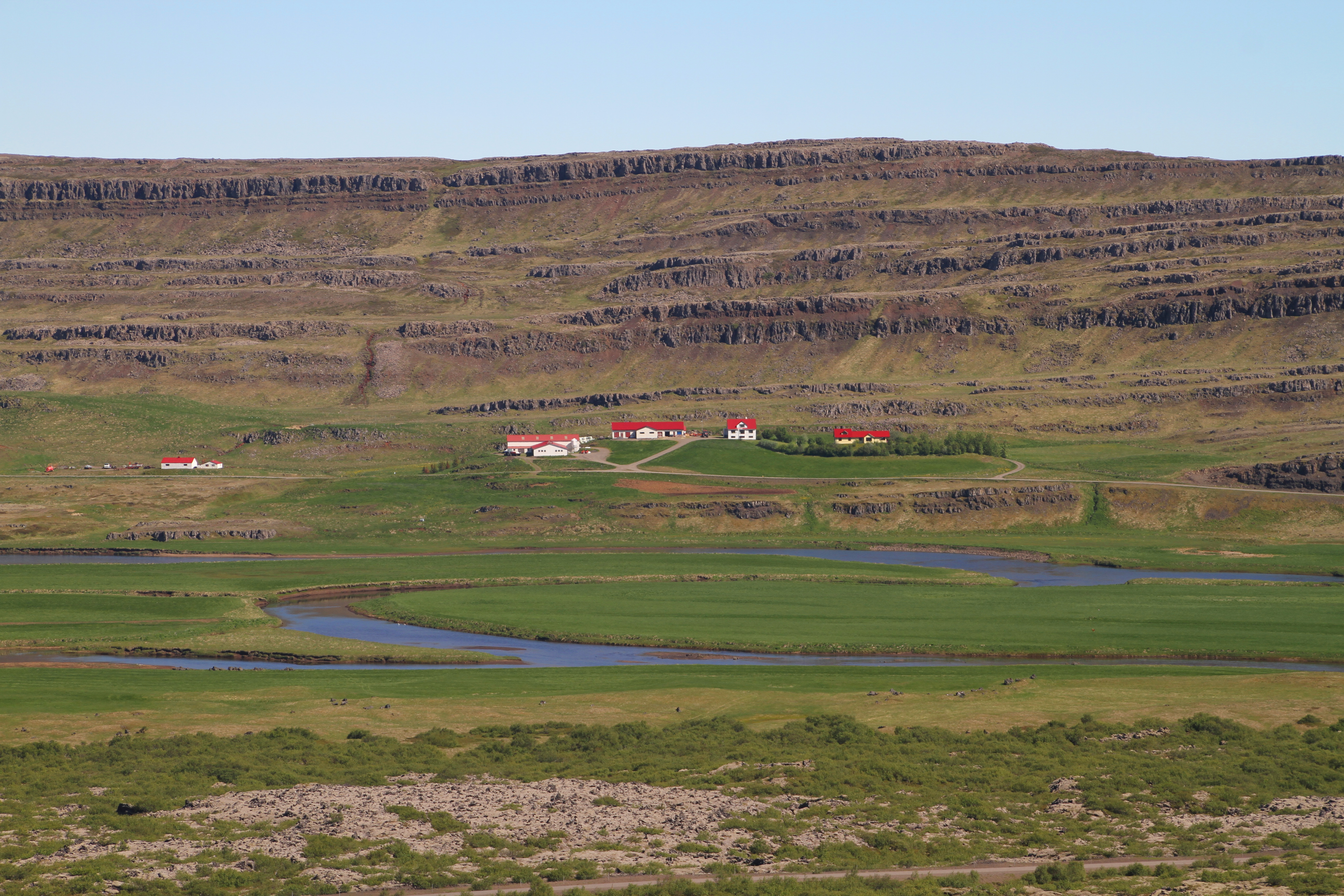 Grábrók volcanic field